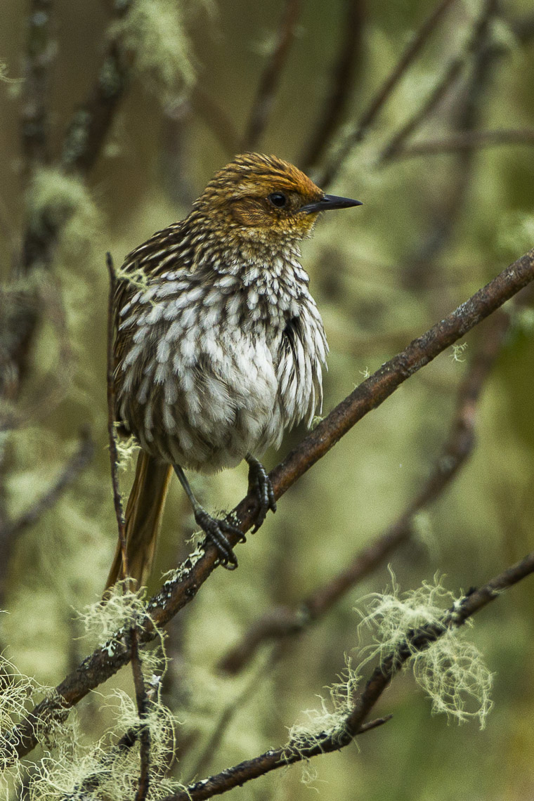 Many-striped Canastero - Colombia_S4E1138